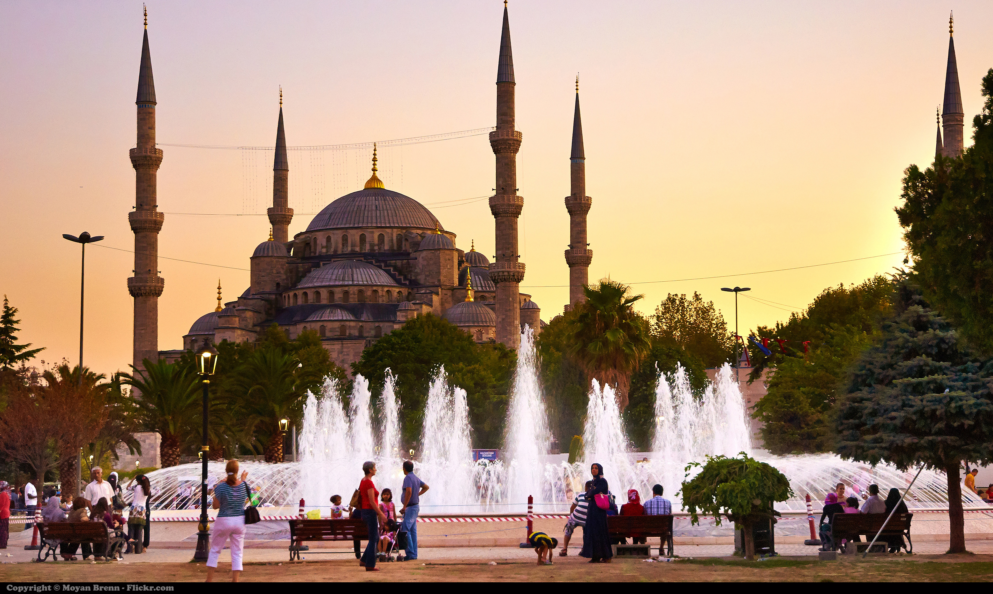 view of the main square in the afternoon